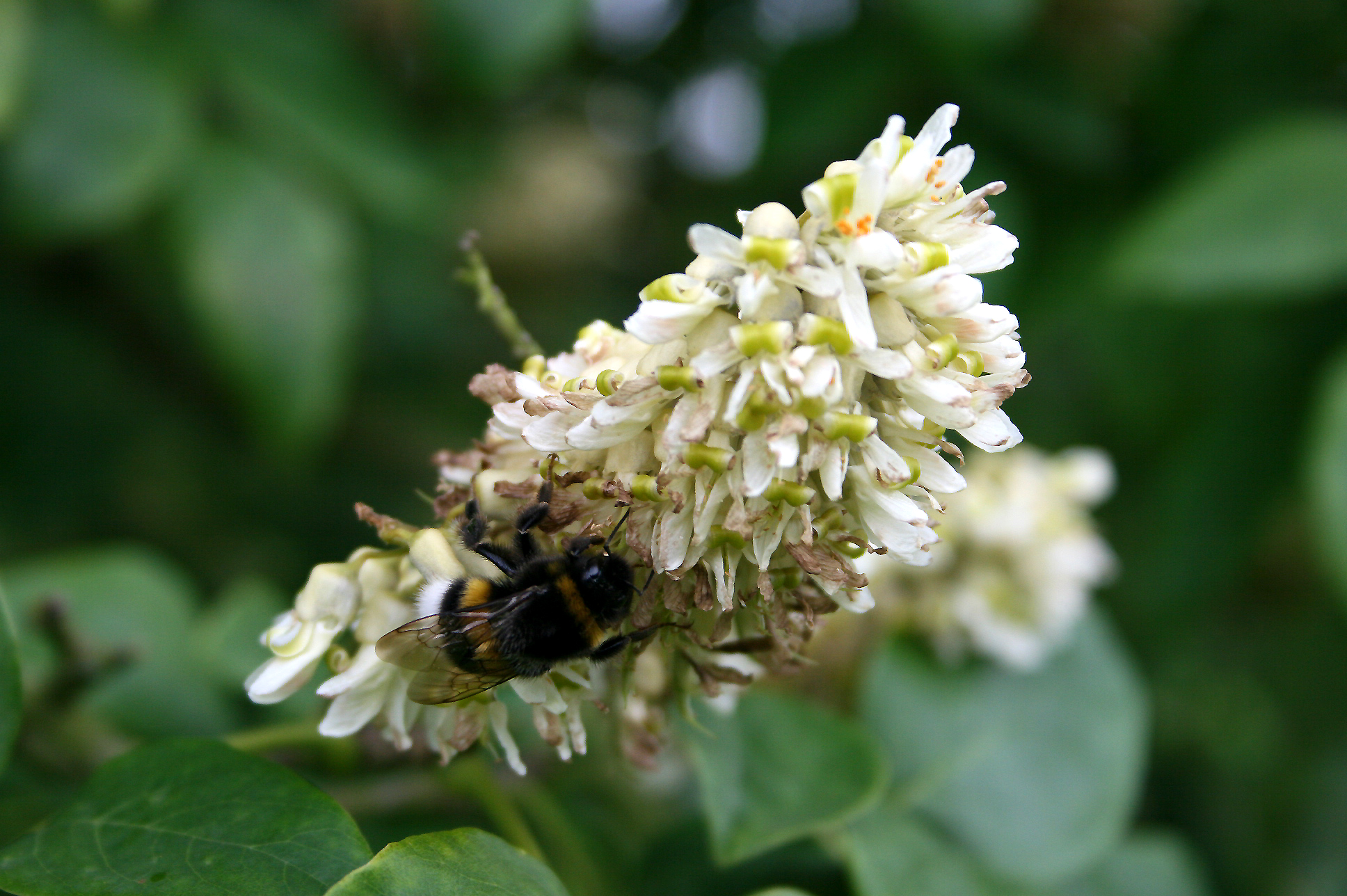 Amur Maackia - (Maackia amurensis) flowers Precise location : National Botanic Garden of Belgium - Meise (Belgium). Walon: Fleûrs dol Maackie di l’Amour - (Maackia amurensis) Place rècta: Jardin botanike national di Bèljike - Meise (Bèljike).